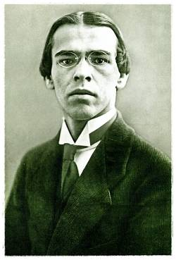 Vladislav Khodasevich Photo